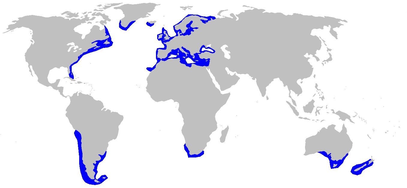 Distribution map for Squalus acanthias